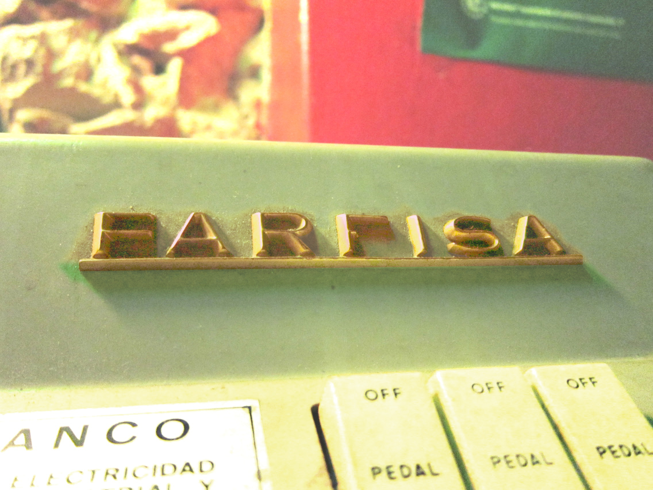 Farfisa logo on Combo Compact (edit1)